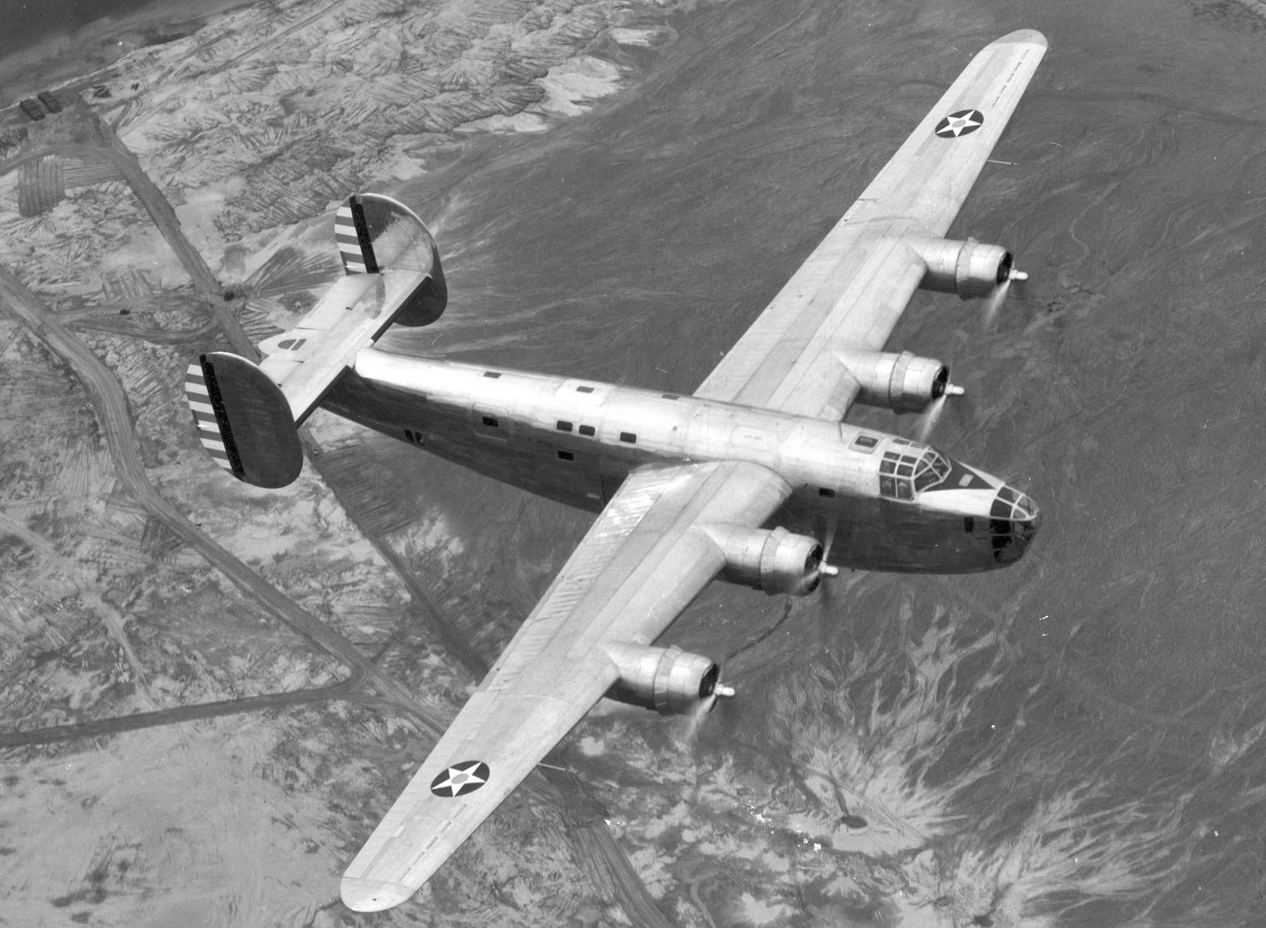 Consolidated XB-24 in flight. Additional Information about XB-24 : Air Force fact sheet about the Consolidated XB-24